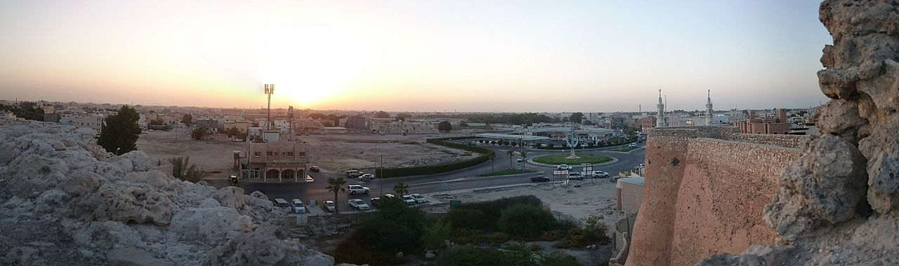 panoramic view at the top of Tarout castle, Tarout island, Qatif, Saudi Arabia